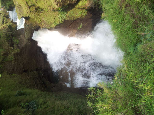 Pic of David's fall of Pokhara